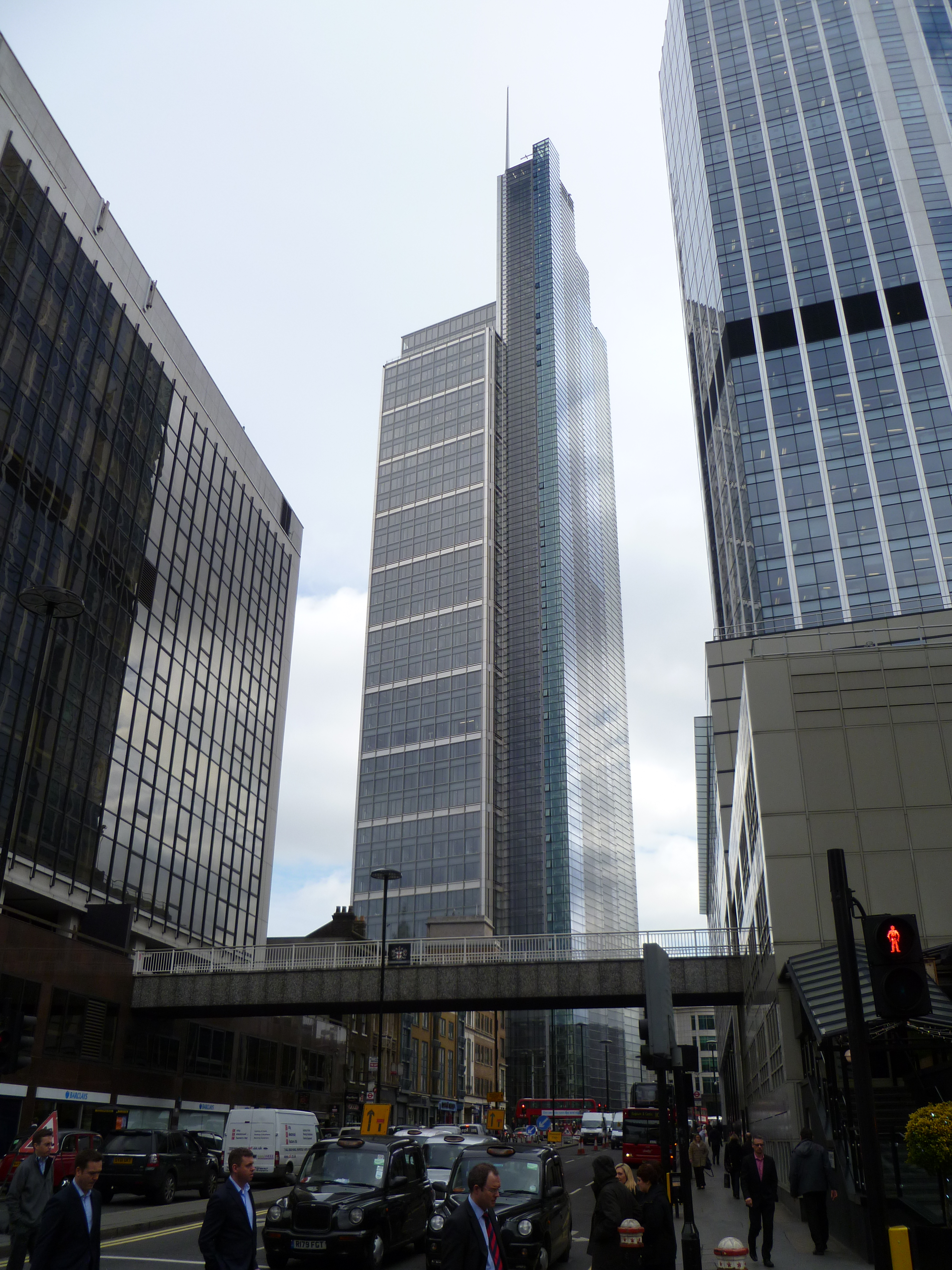 Heron Tower, pictured from Wormwood Street, in the City of London